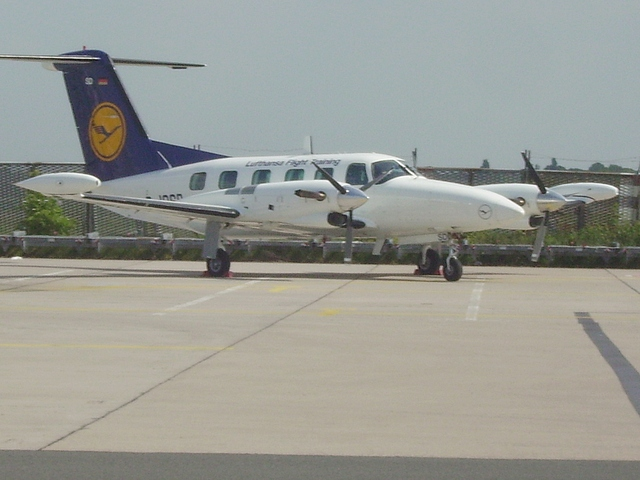 A Piper PA-42 Cheyenne of Lufthansa Flight Training